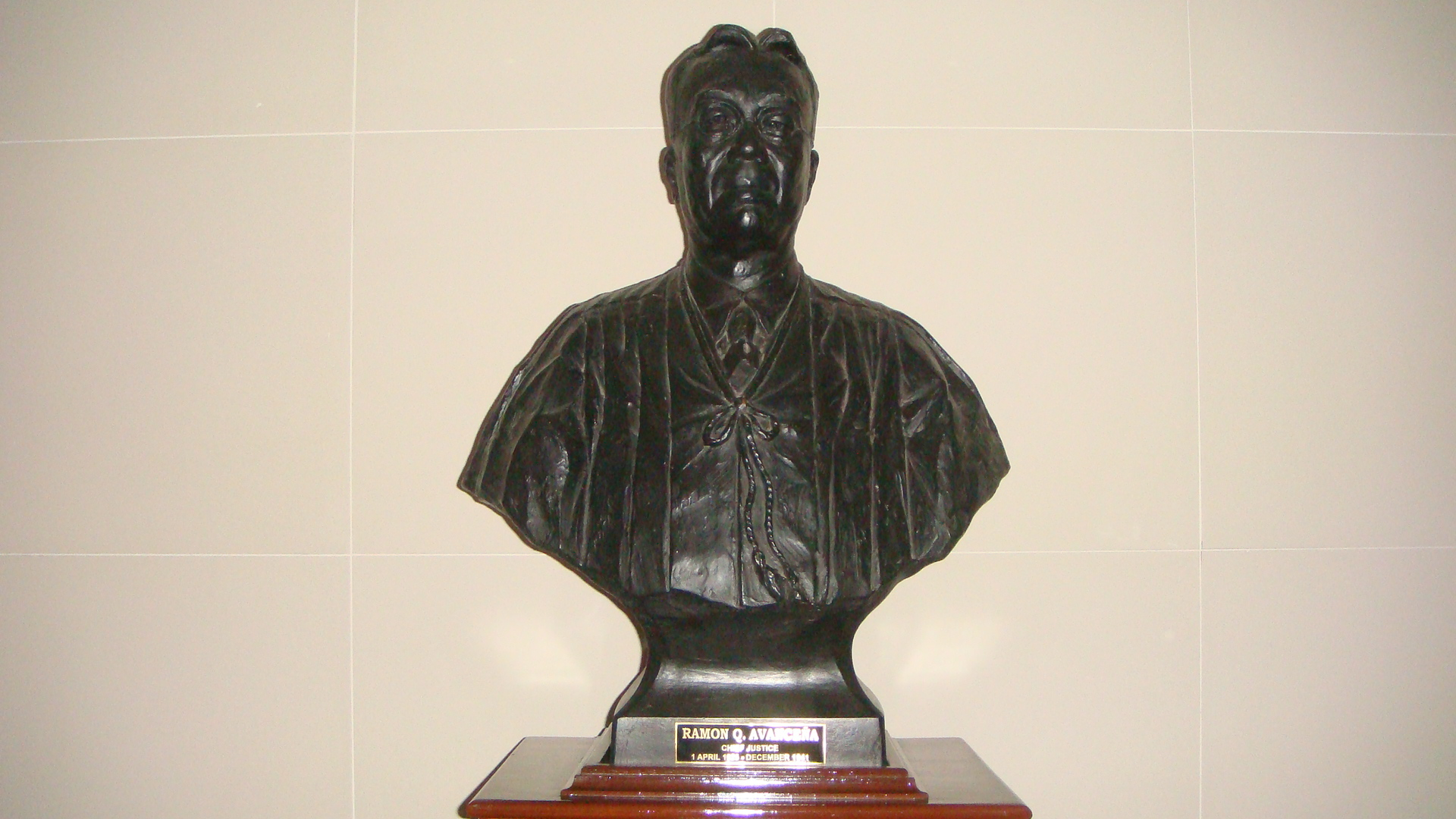 The brass statue, monument of SC Chief Justice Ramón Avanceña in the Supreme Court of the Philippines